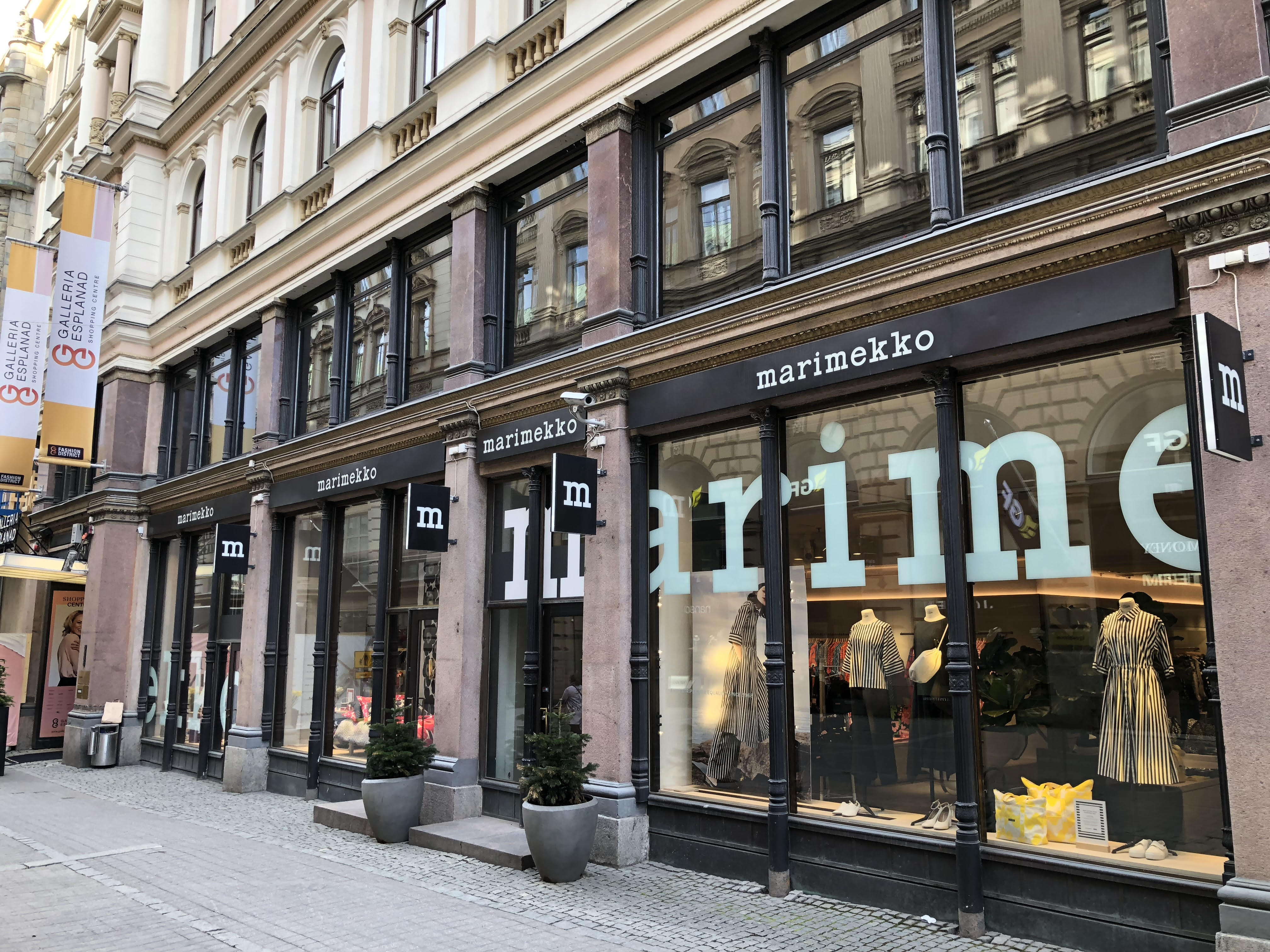 Marimekko Store in Mikonkatu Helsinki Finland in may 2018